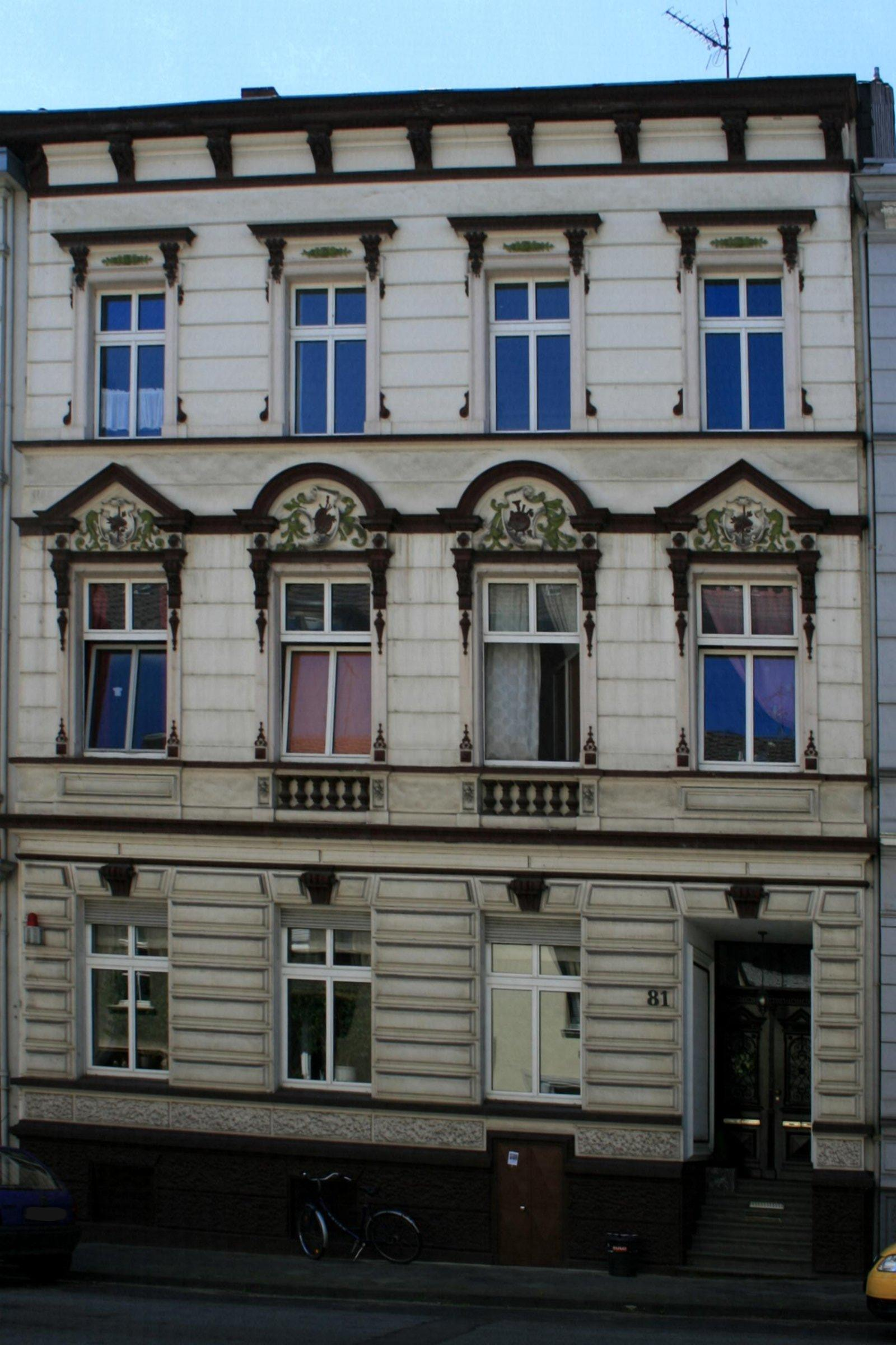 Cultural heritage monument No. Sch 003 in Mönchengladbach